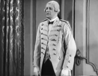 Gilbert Emery in the 1931 American film The Royal Bed.